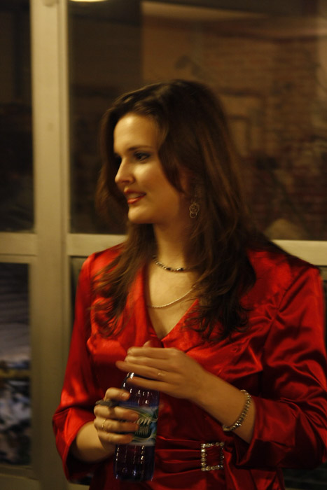 Halie Loren in 2008.